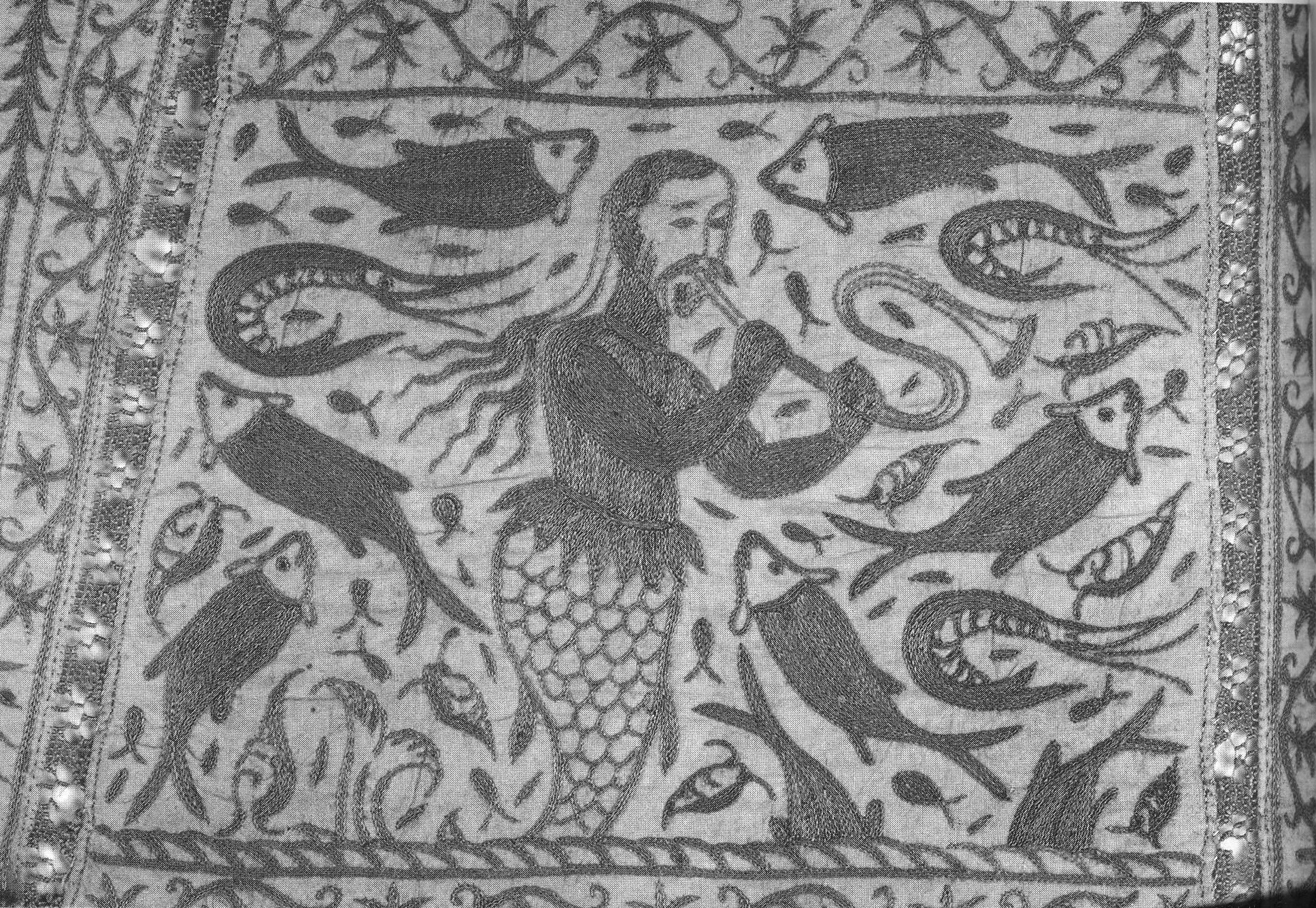 The Neck on the Altar cloth in the church of Ii in Finland.